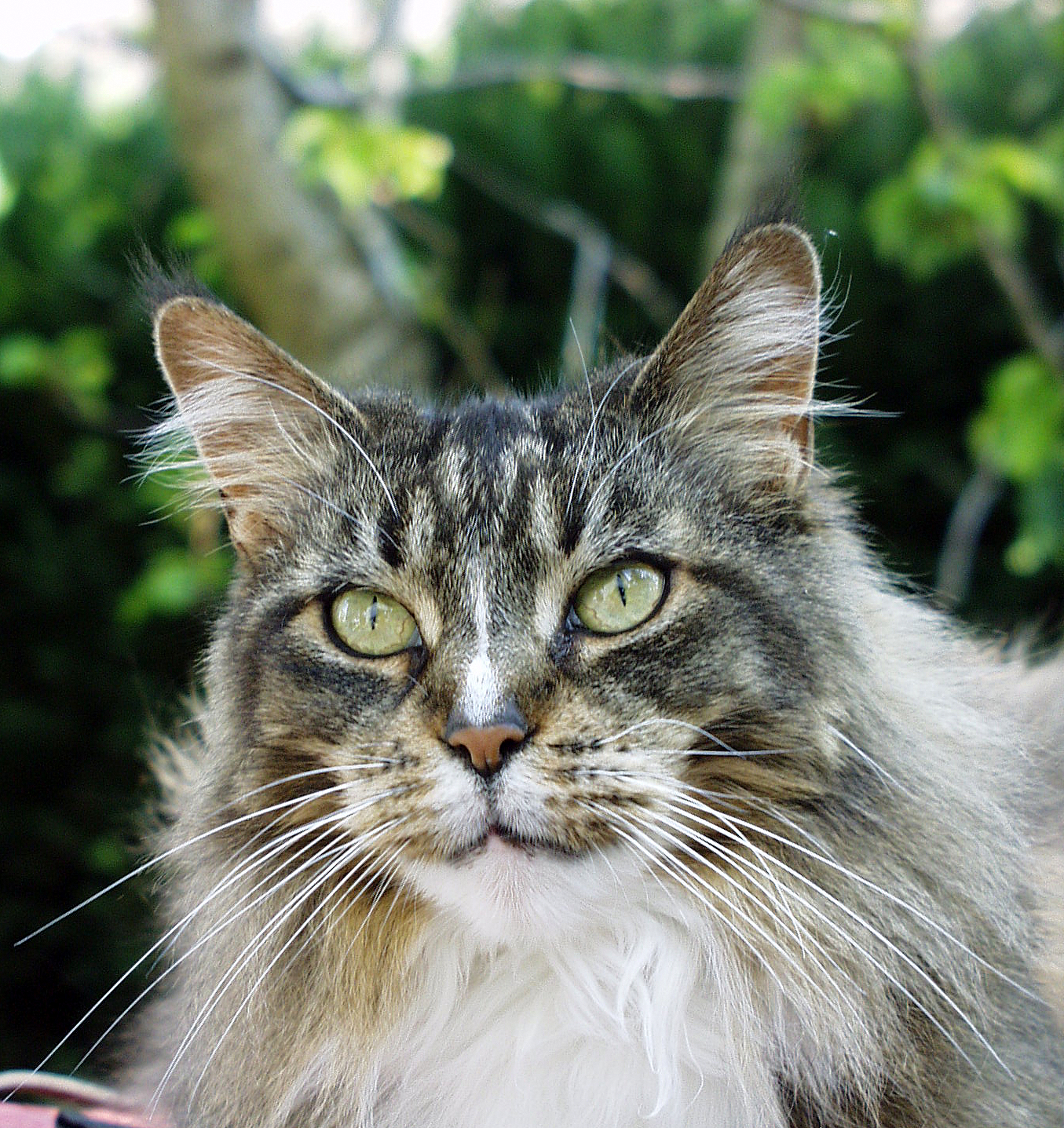 an old Maine Coon